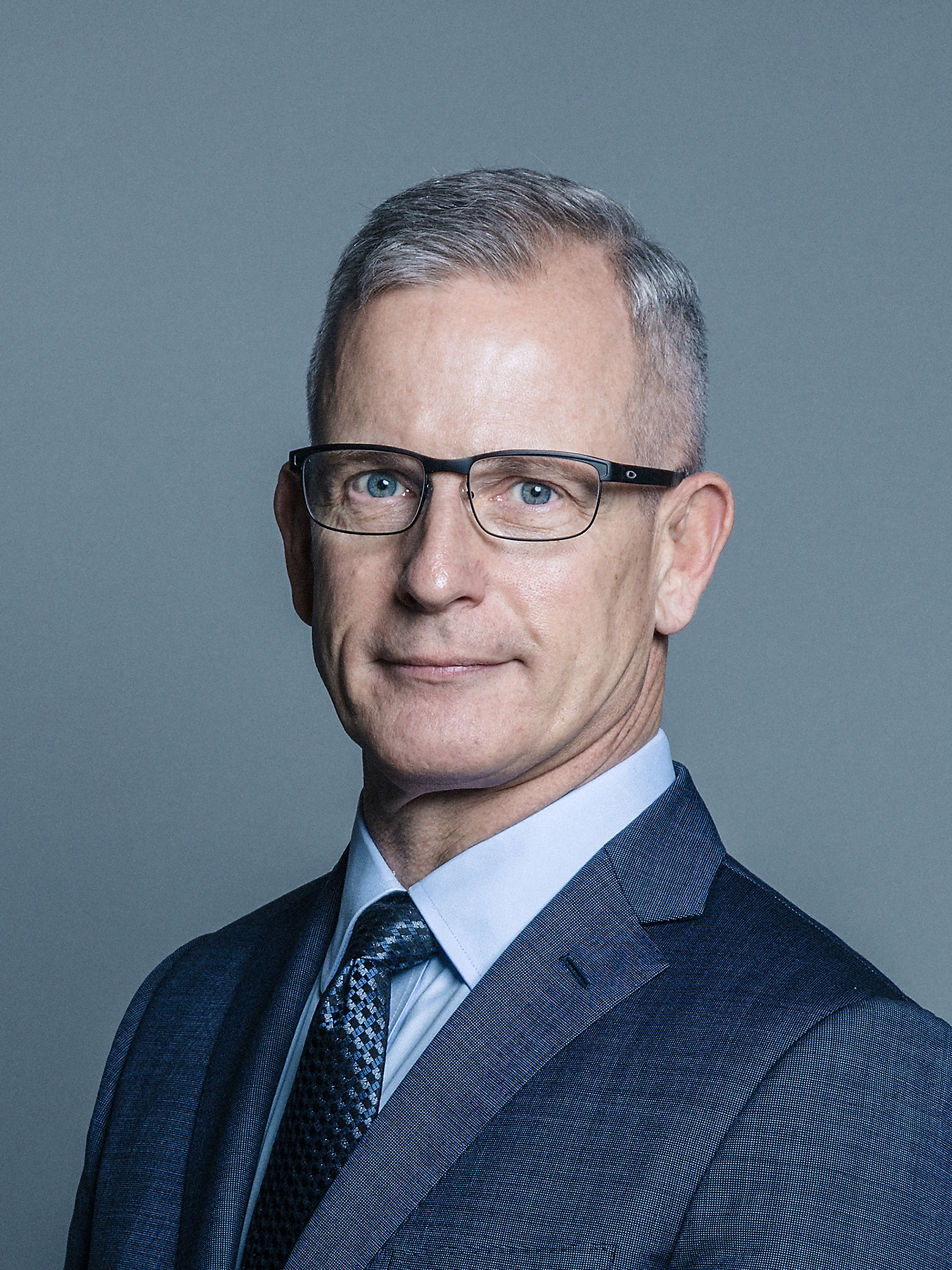 Official portrait of Lord Paddick 3×4 portrait of Lord Paddick